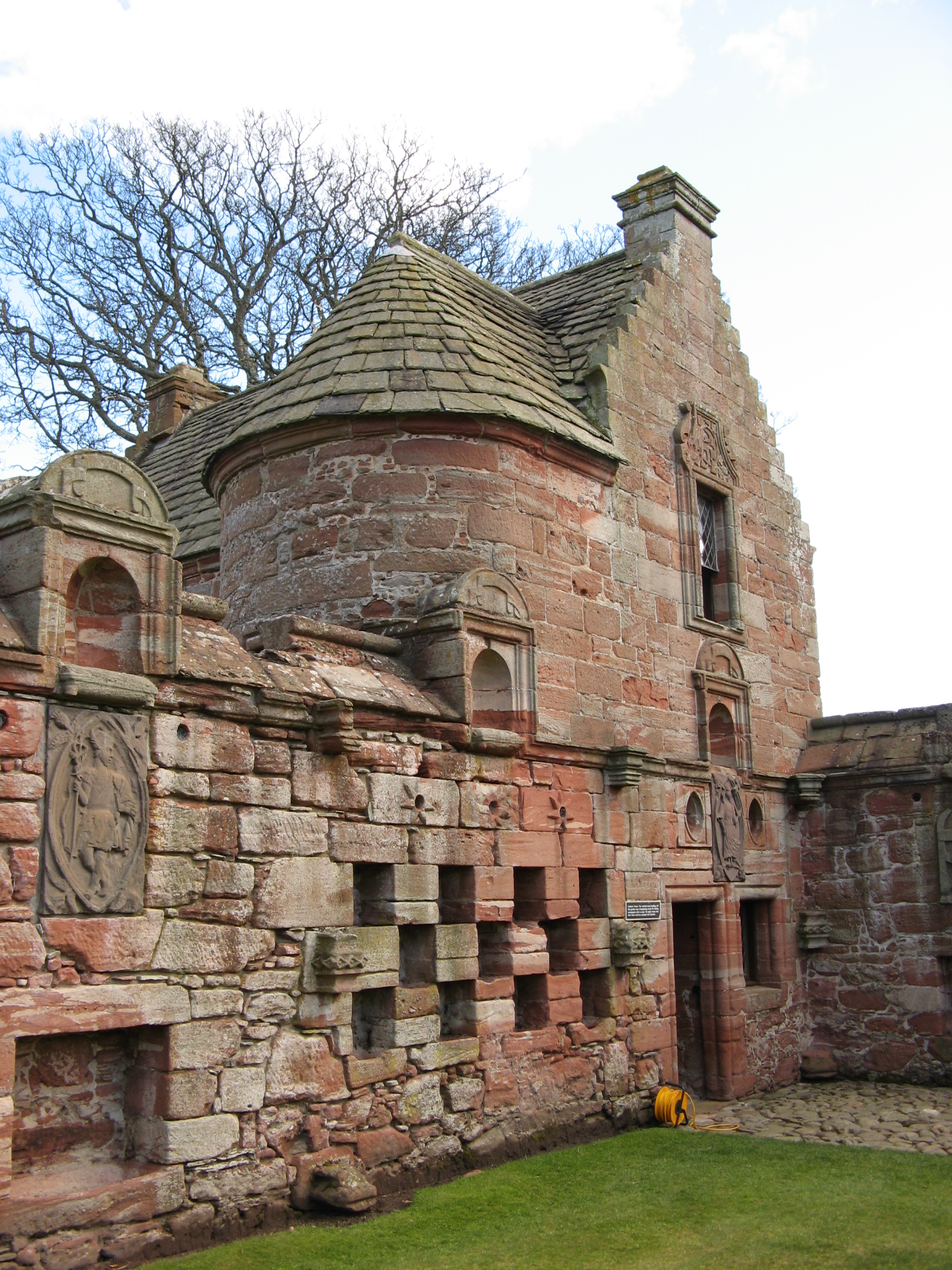 Edzell Castle, Angus, Scotland. Sumer house in the south-east corner of the garden.